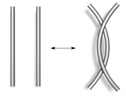 This picture illustrates the Reidemeister move of type II. The move appears as one of fundametal proceidures to deform knots without changing their equivalence class in knot theory (matheamtics). This type II move deals with two portions with no links of the string. The picture shows the strings as 3D objects to illustrate the vertical arrangement.